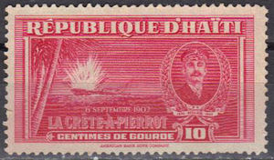 1943 postage stamp depicting the death of Admiral Hammerton Killick.